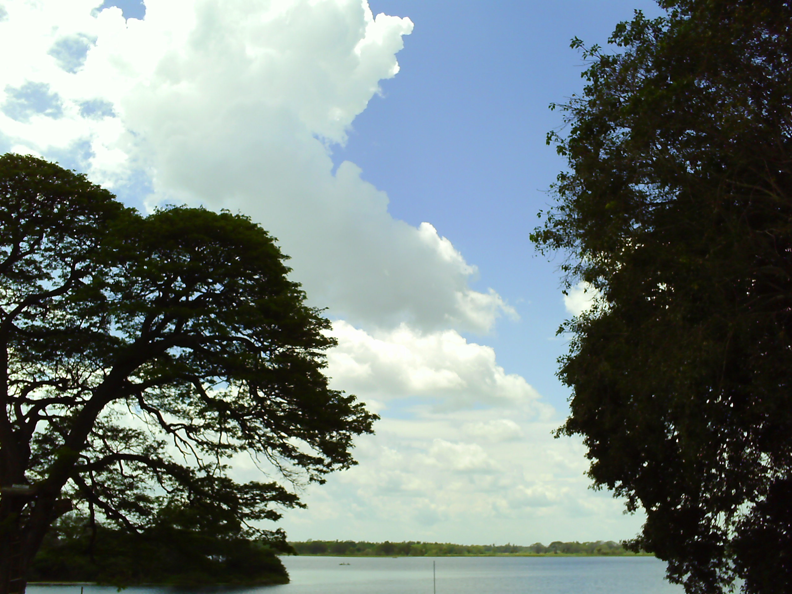 View of Tissa Wewa lake in Tissamaharama, south-eastern Sri Lanka, seen from the Rest House.